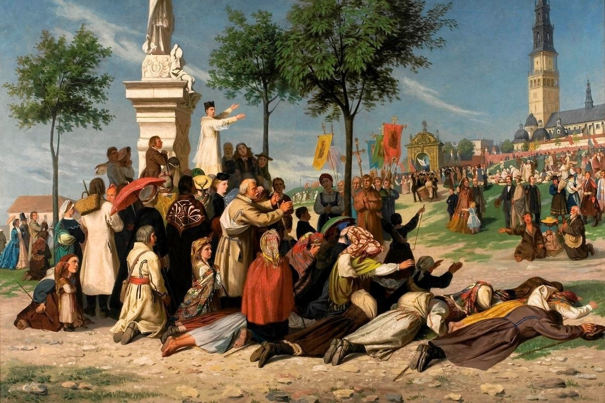 Pilgrims Arriving at Jasna Gora